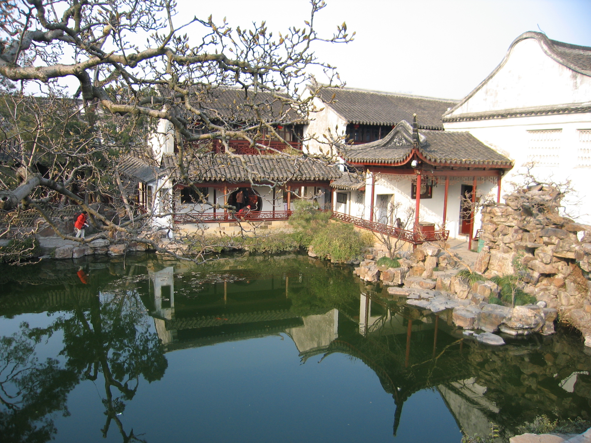 The Master of Nets Garden — a renowned Classical Chinese garden in Suzhou, Jiangsu Province. The garden is within the Classical Gardens of Suzhou World Heritage Site, and is a National Cultural heritage monument. One of the four best examples of classical gardens in Suzhou, along with the Humble Administrator's Garden, Master of Nets Garden, and Lion Forest Garden.